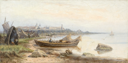 Oil on canvas. 35.5 x 71 cm.